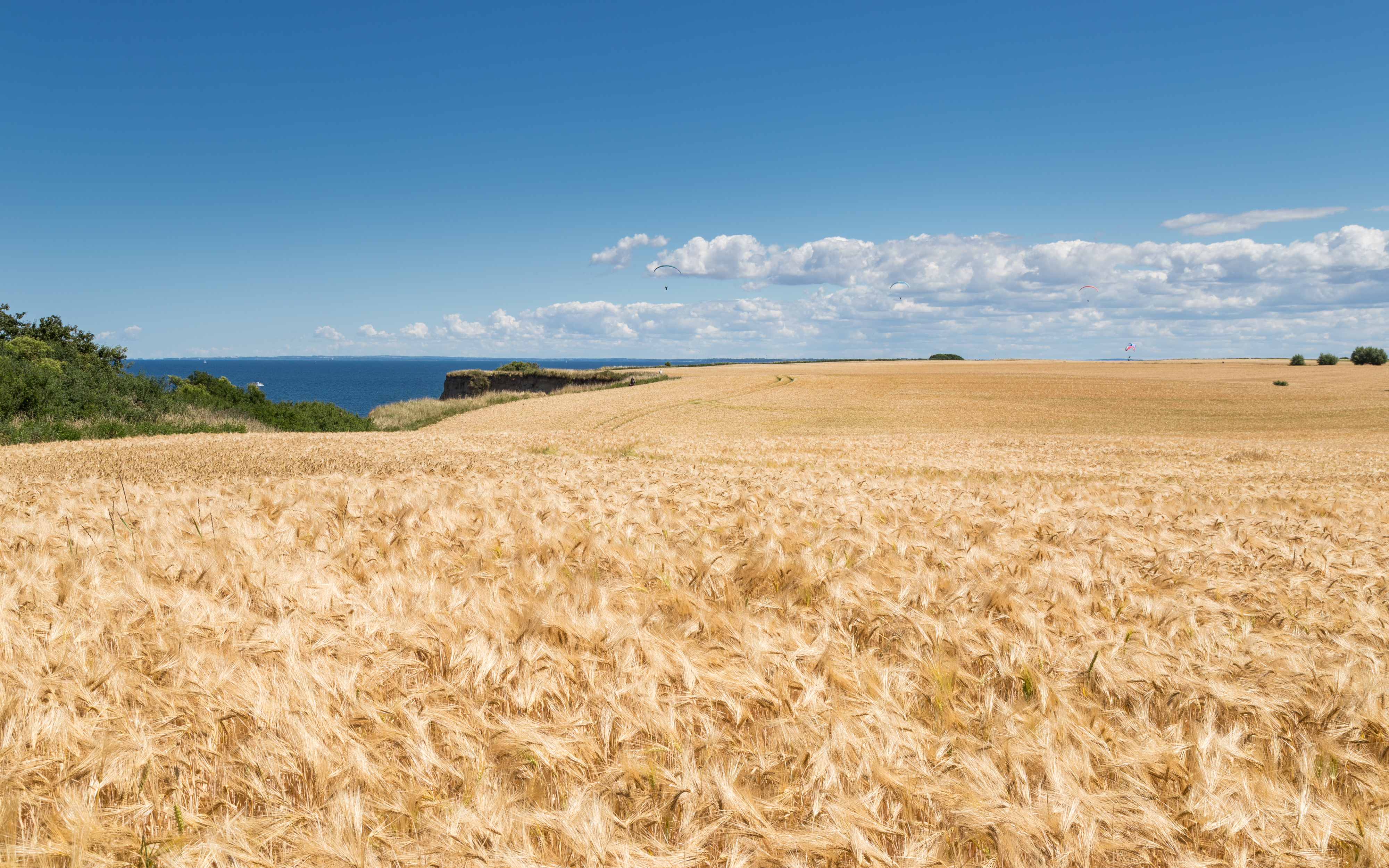 Barley fields near the cliffs of Boltenhagen (Mecklenburg) at the Baltic Sea.